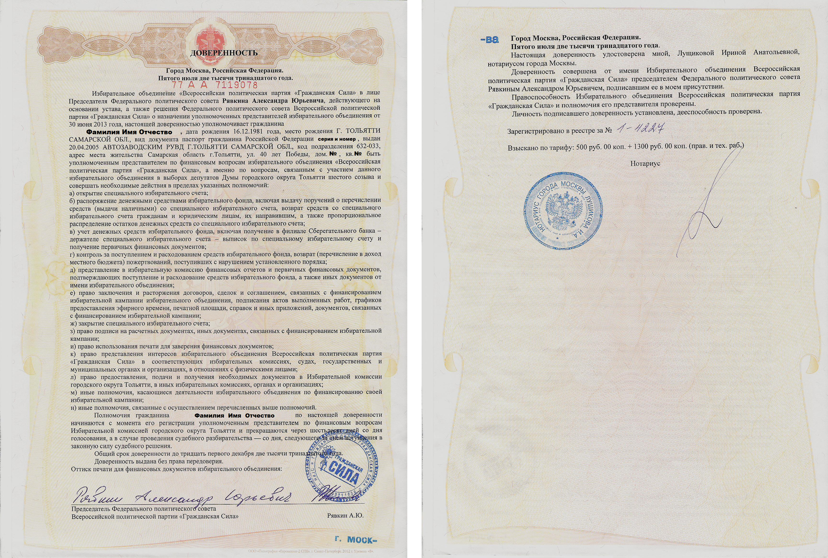 Document - Notarized power of attorney in Russia